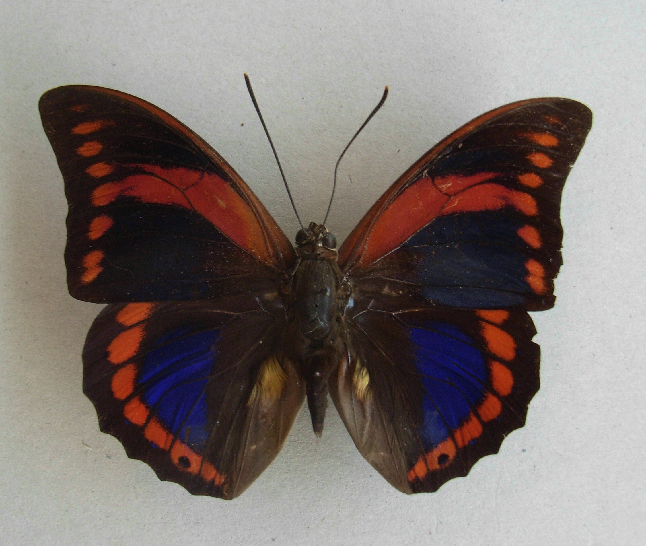 Prepona praeneste Hewitson,1859